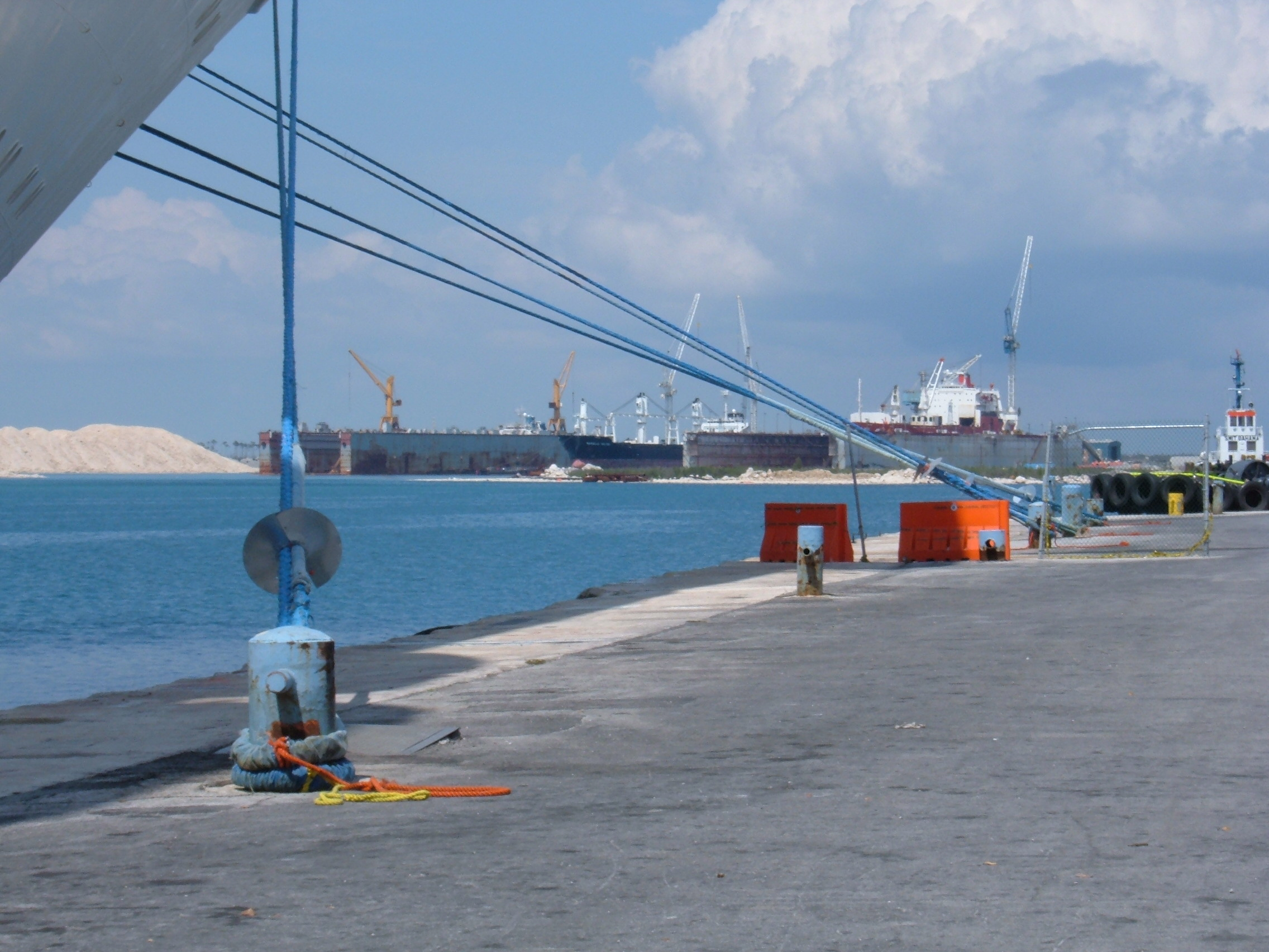 Mooring lines of the Carnival Sensation at Freeport Harbour on Grand Bahama Island, The Bahamas.